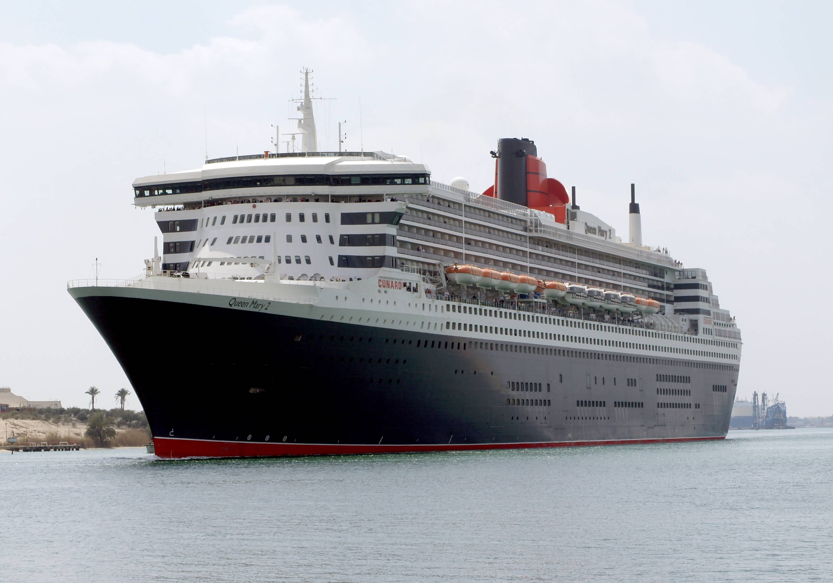 Queen Mary 2 crosses Suez Canal